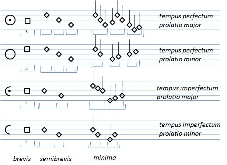 example white notation tempus/prolatio